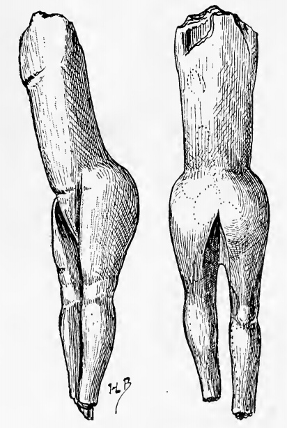 Drawing of the Vénus impudique, from a 1907 book.